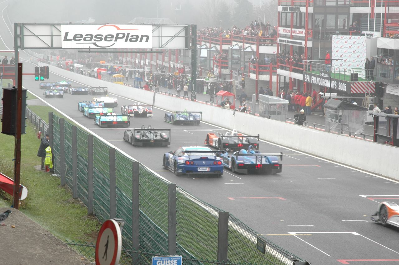 Start of the 2005 1000km of Spa